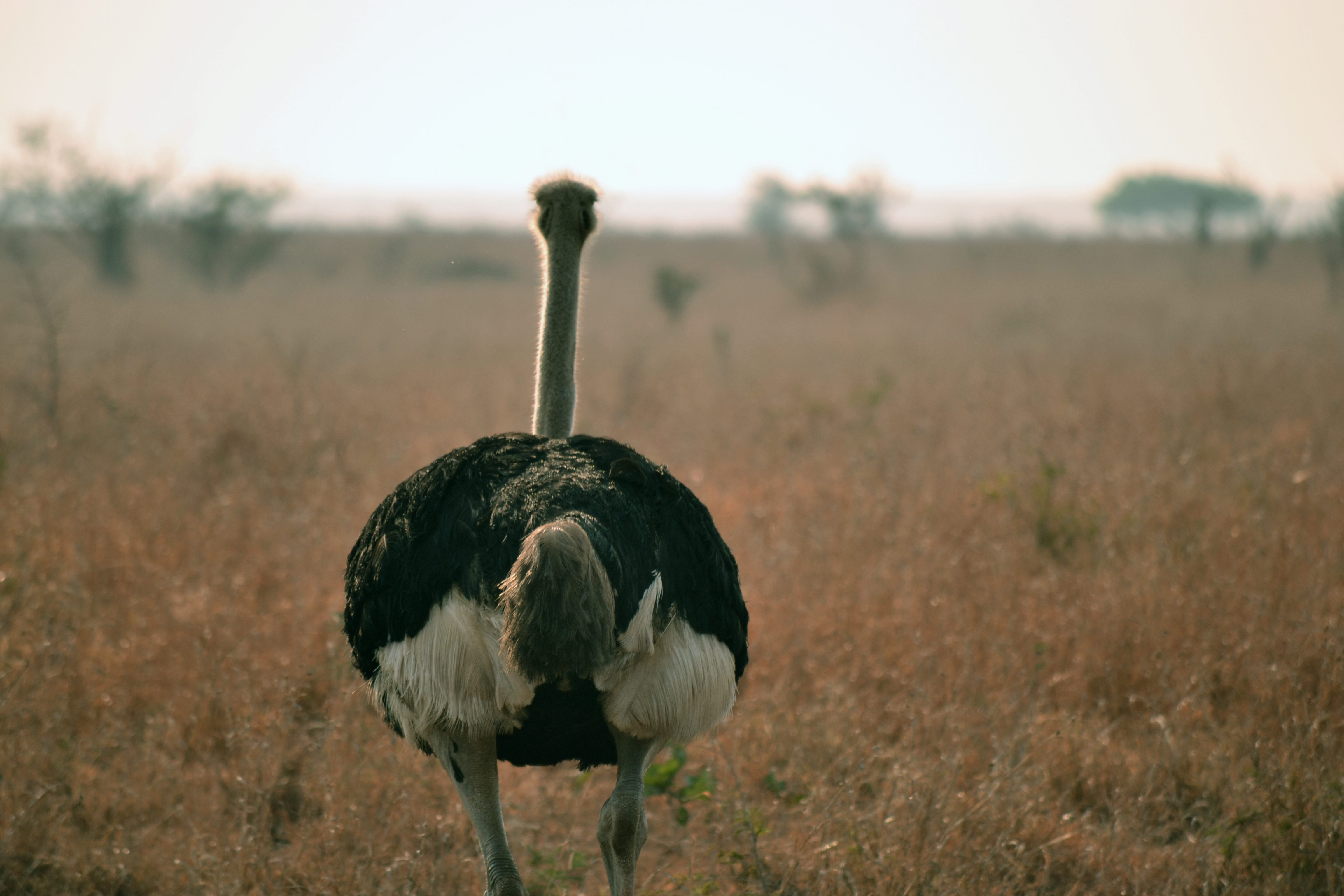 Running ostrich, South Africa